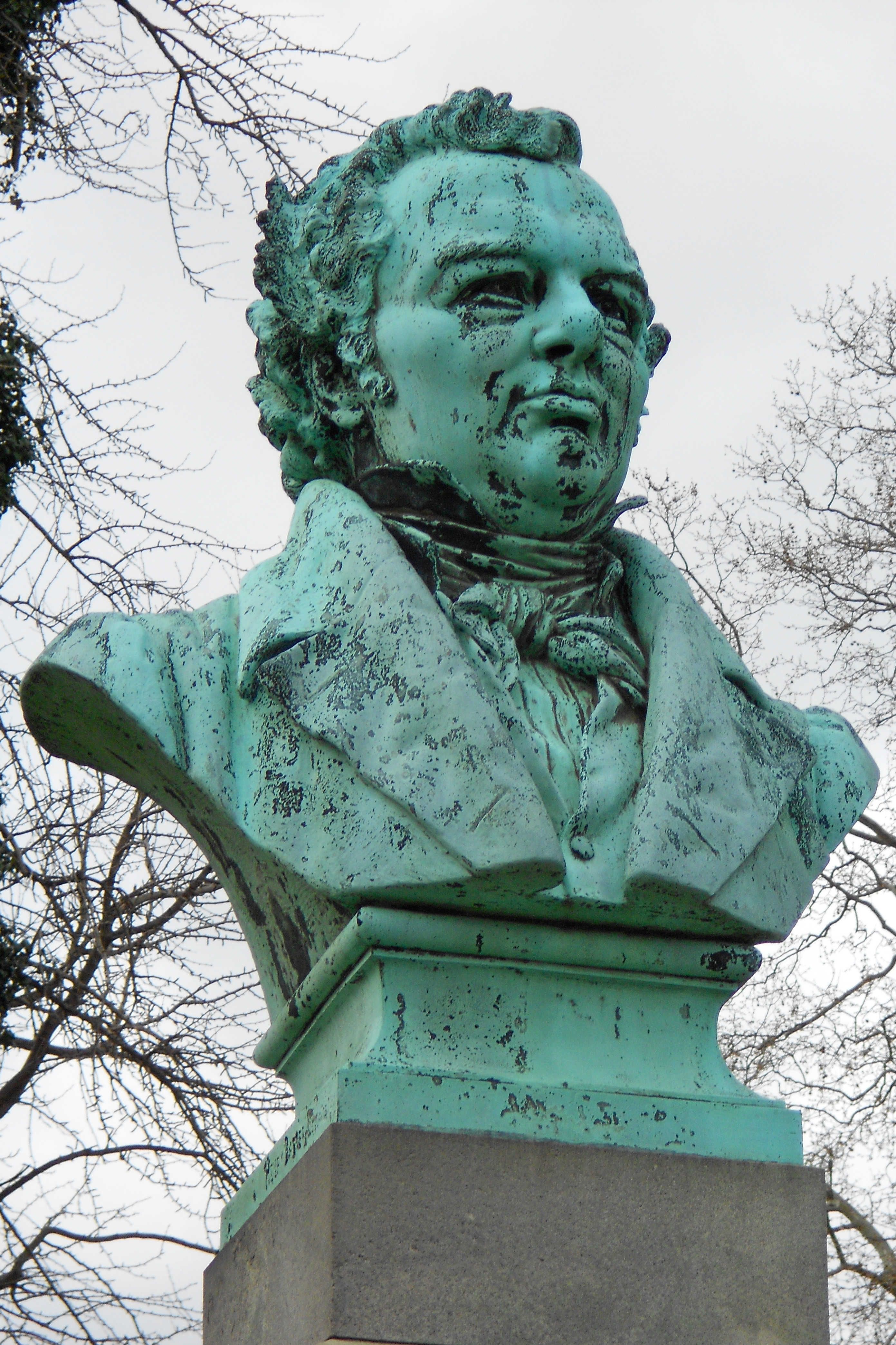 Bust of Franz Schubert by Henry Baerer, 1891 in West Fairmount Park, east of Horticultural Hall. Bronze sculpture with limestone base and granite with bronze plaque. Smithsonian reference number IAS 75009315